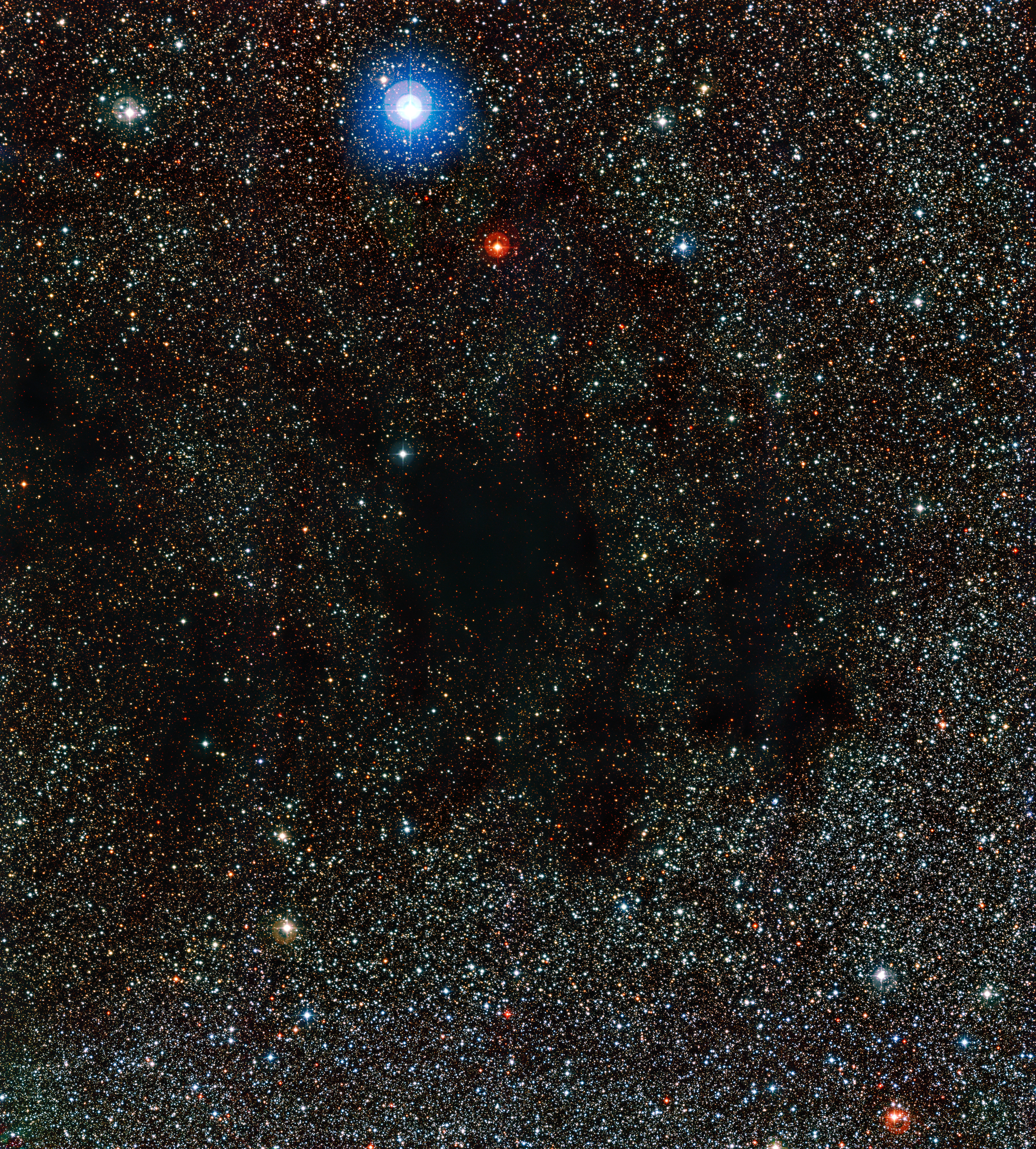 This image from the Wide Field Imager on the MPG/ESO 2.2-metre telescope shows part of the huge cloud of dust and gas known as the Coalsack Nebula. The dust in this nebula absorbs and scatters the light from background stars.